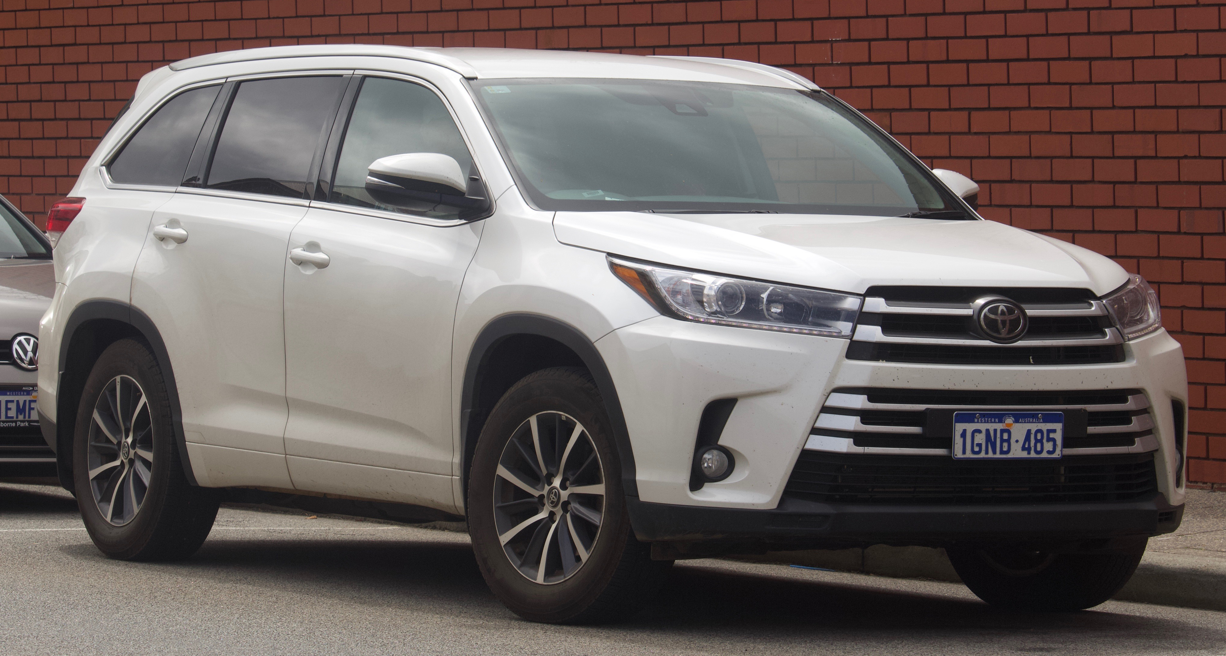 2018 Toyota Kluger (GSU55R) GXL wagon. Photographed in Fremantle, Western Australia, Australia.